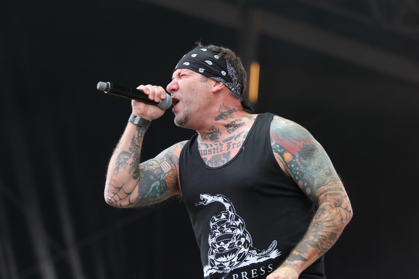 Festivalsommer This photo was created with the support of donations to Wikimedia Deutschland in the context of the CPB project "Festival Summer".